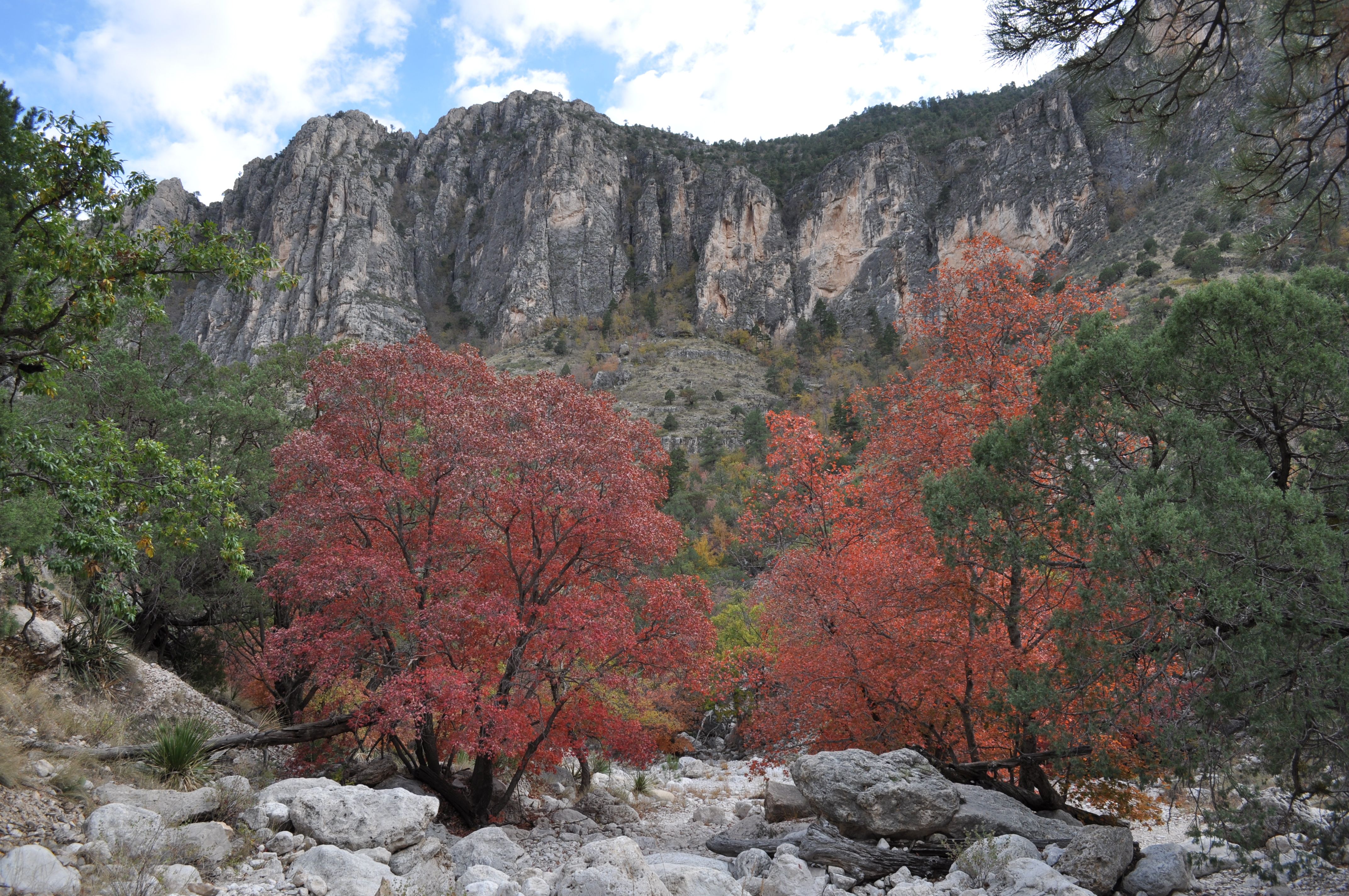 Fall foliage in Pine Spring Canyon in Guadalupe Mountains National Park, Texas.